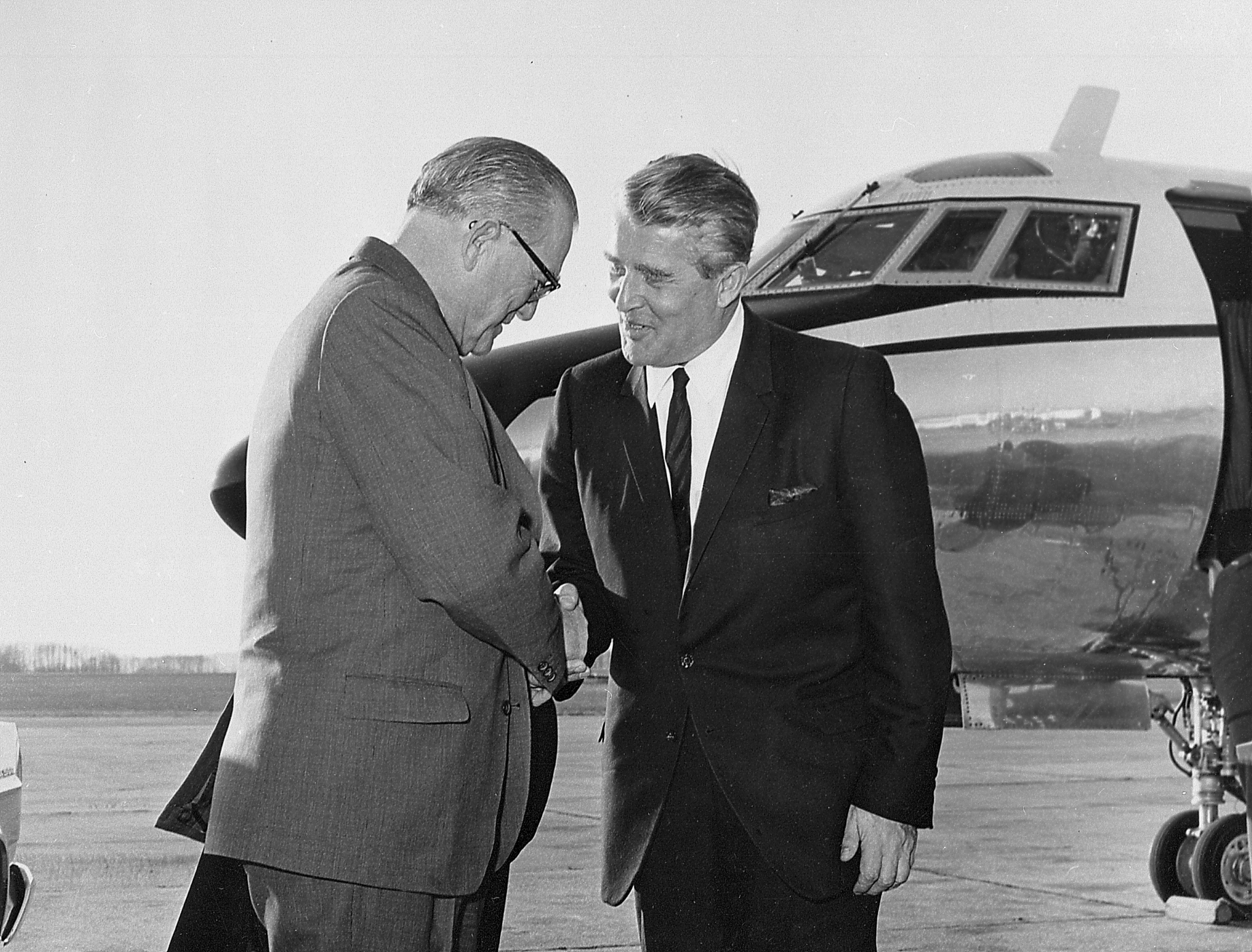 U.S. Senator from Mississippi, John Stennis (left) visited the Marshall Space Flight Center (MSFC) in mid-November 1967, where he was greeted at the Redstone Airfield by Center Director Dr. Wernher von Braun (right). During his visit to MSFC, Senator Stennis was given a tour and briefed on MSFC programs.